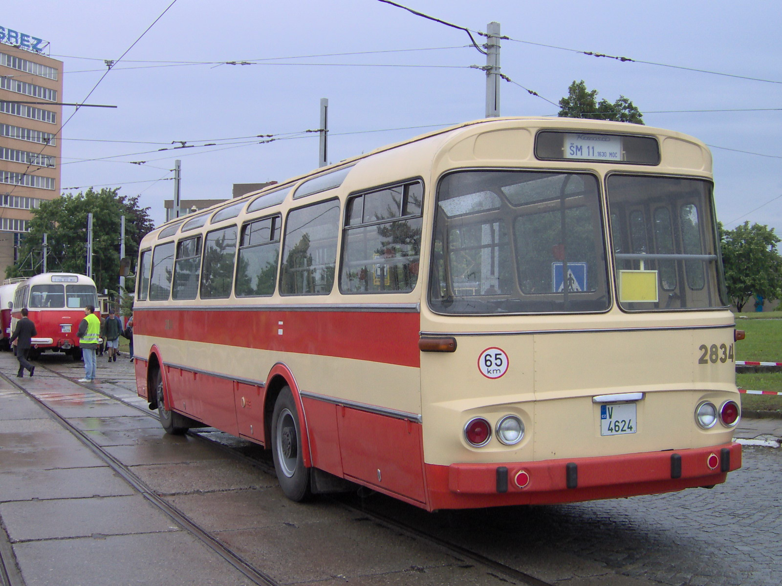 Historical Karosa ŠM 11 bus in Brno